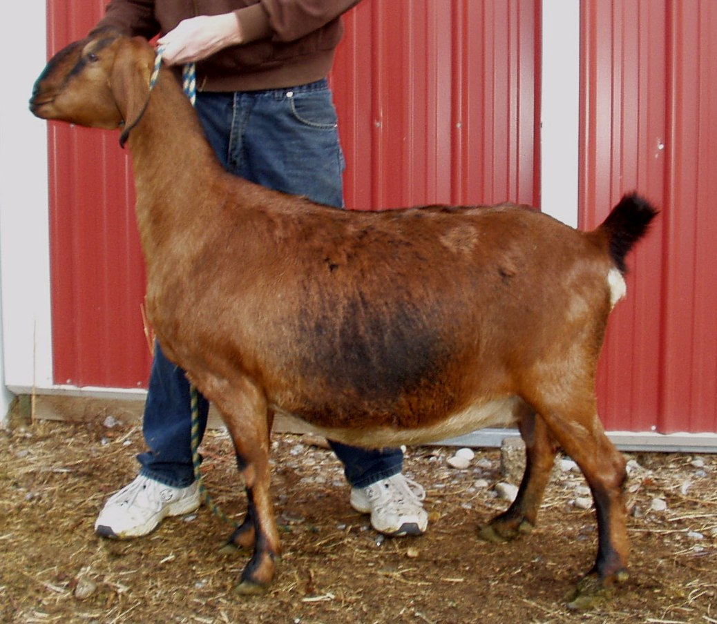 Nadine is a wonderful example of a Nubian Dairy Goat.